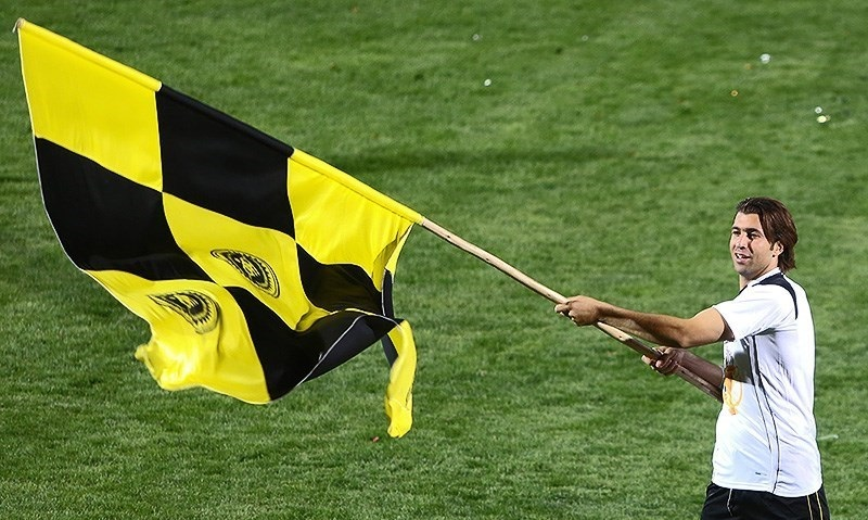 Celebrations after Sepahan won 2014-15 Iran Pro League title